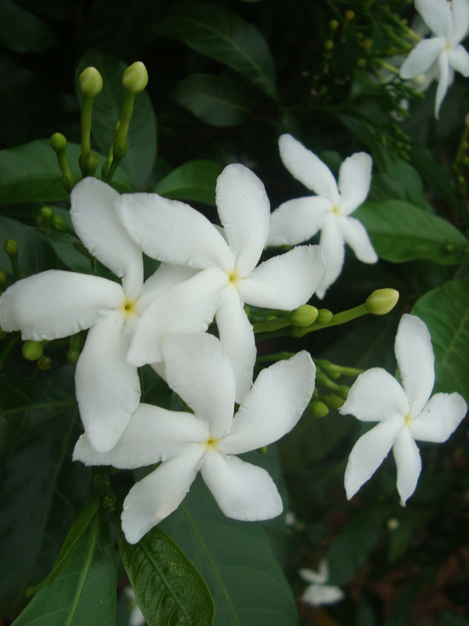 Crape jasmine